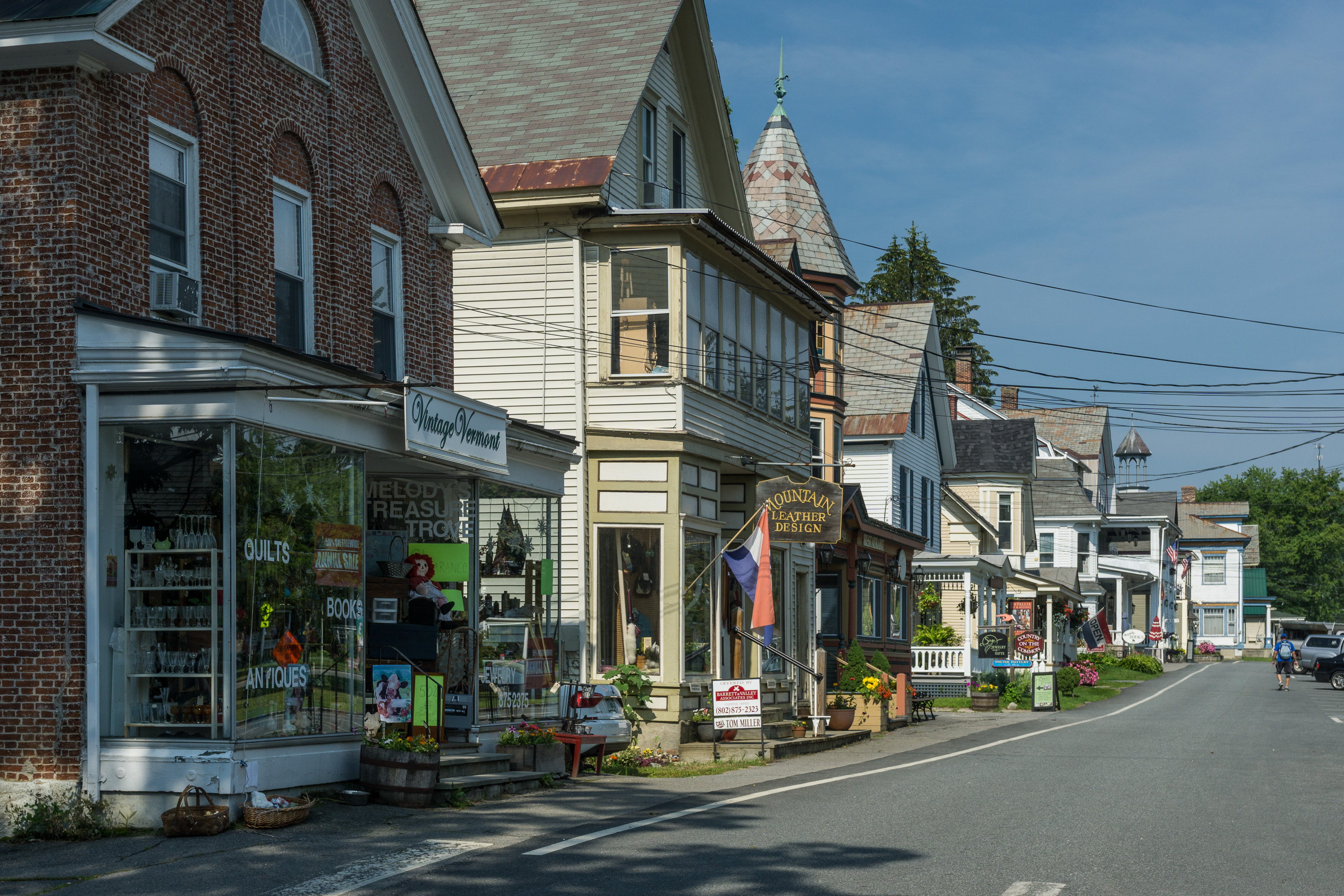 Chester, Vermont downtown